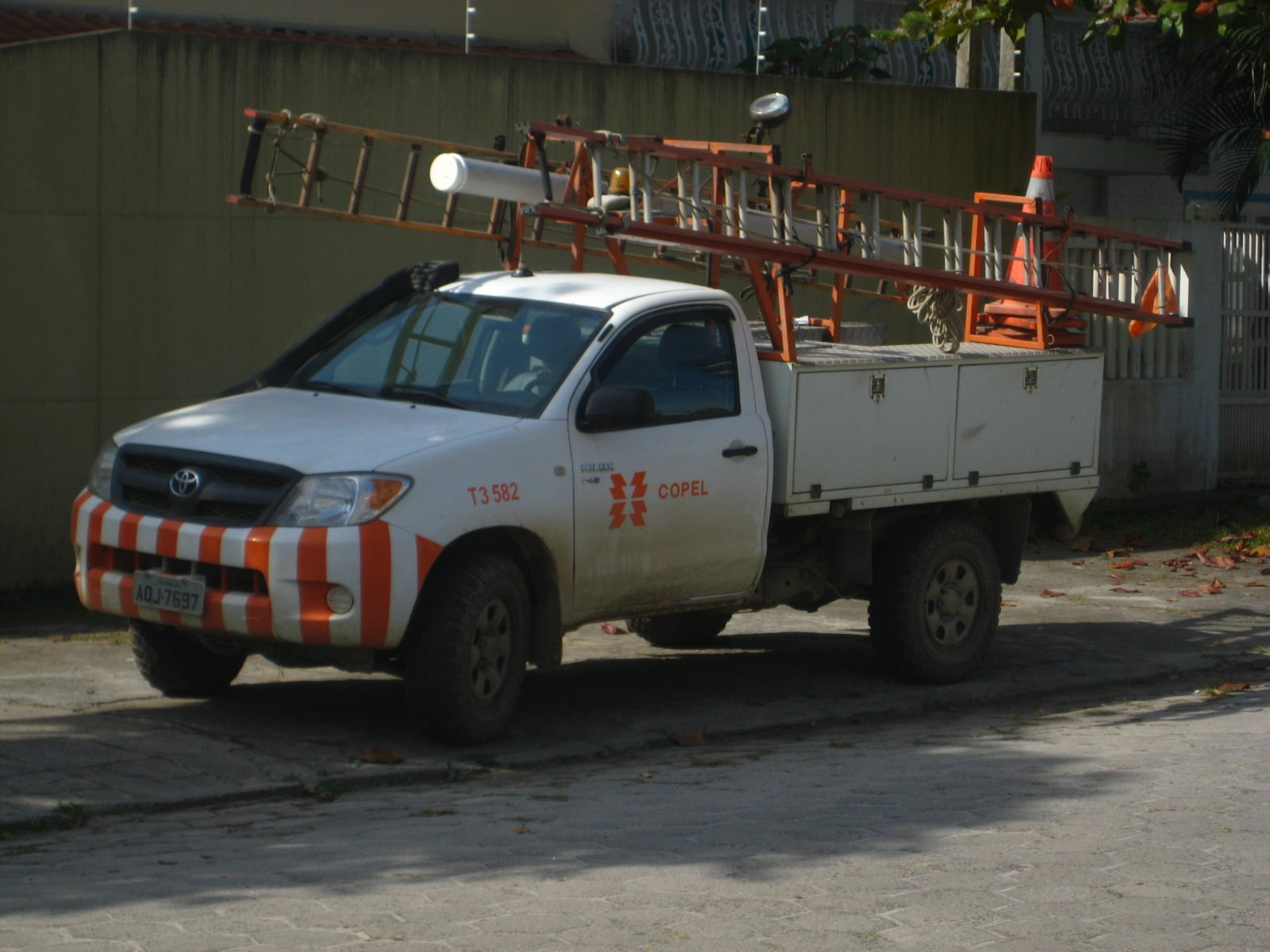 Copel's maintenance car in a city in Paraná, Brazil.